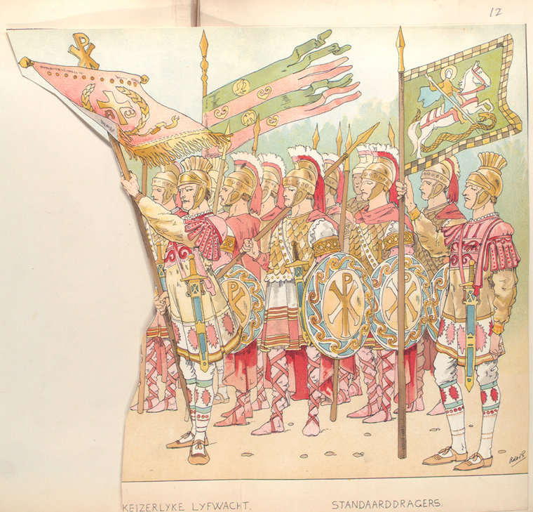 Fanciful ahistorical representation of Byzantine standard bearers. Drawing from Vinkhuijzen Collection of Military Costume Illustration.